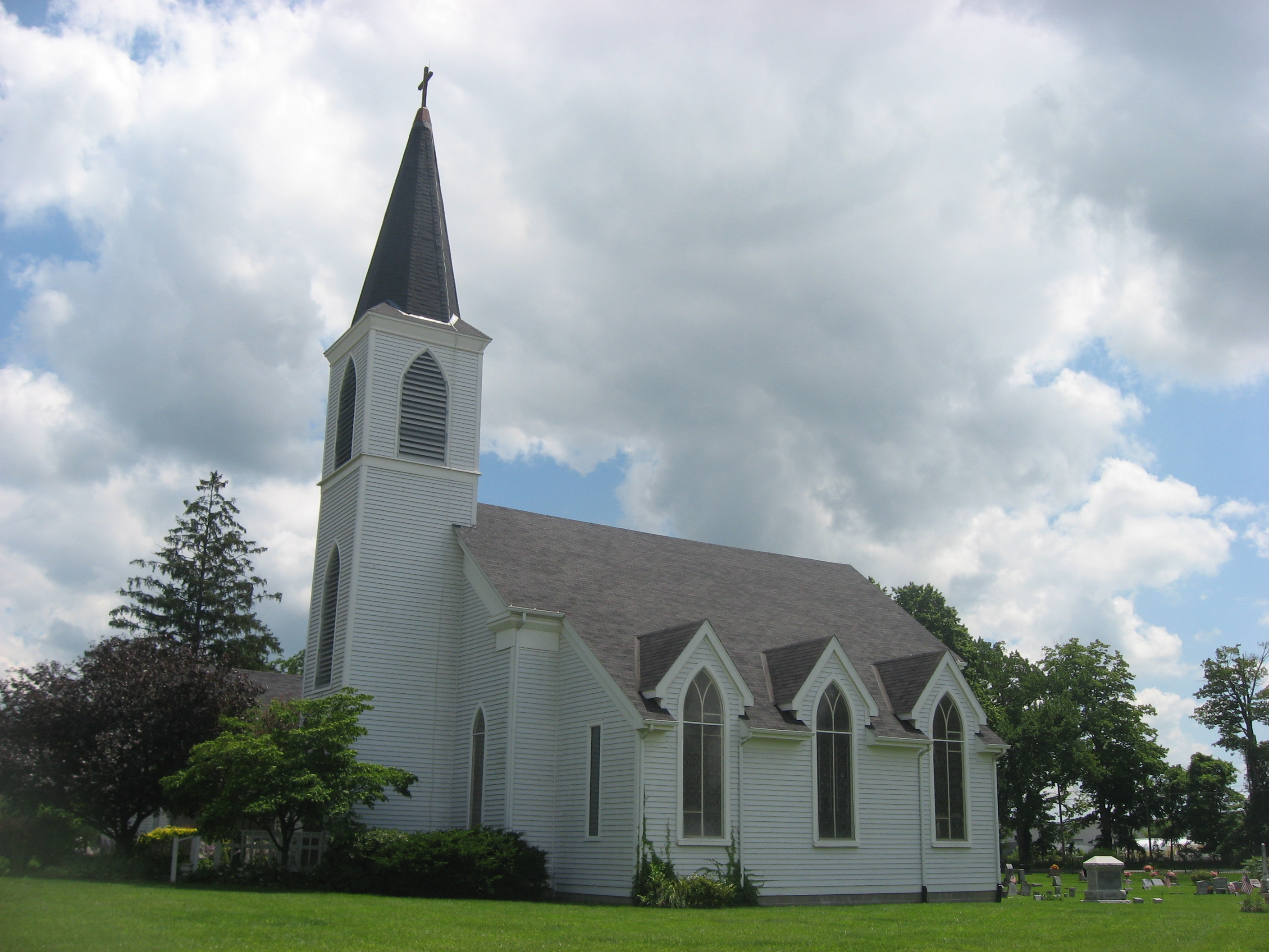 Western side of St. John of the Cross Episcopal Church, located at 601 E. Vistula Street (State Road 120) in Bristol, Indiana, United States. Built in 1830, it is listed on the National Register of Historic Places.